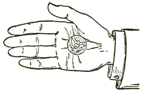 Fig 3 in File:Magic (Ellis Stanyon).djvu